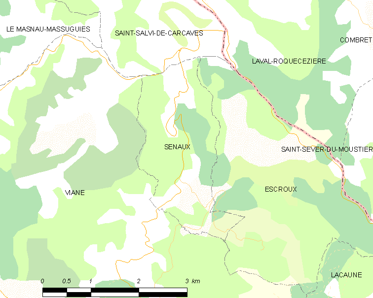 Map commune FR insee code 81282.png - Senaux